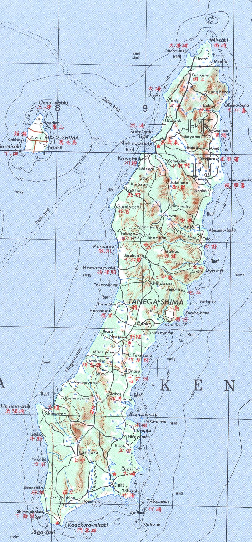 map sheet Tanegashima, southern Japan